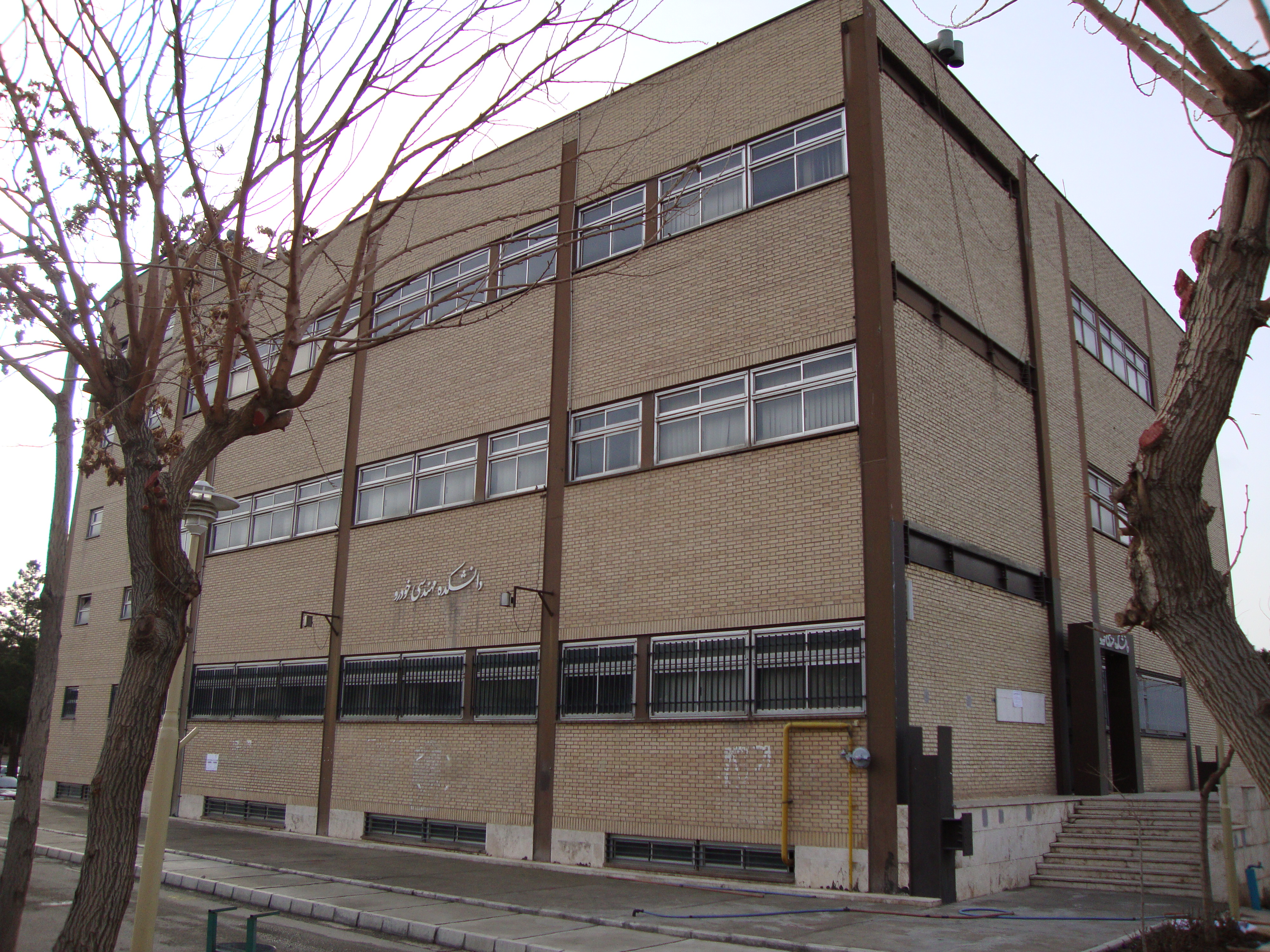 Outside View of Automotive Engineering Department of Iran University of Science and Technology